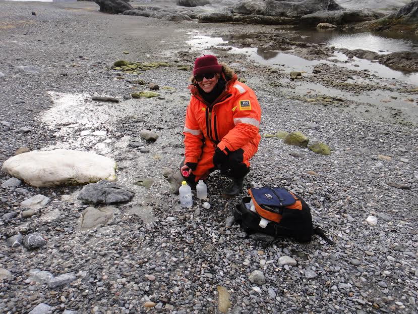 Sampling. Hornsund.